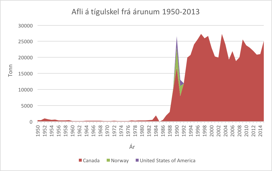 aflinn